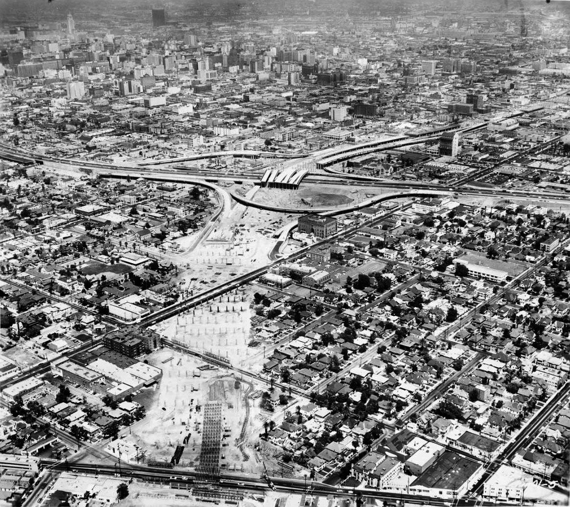 Interstate 10 Under Construction at State Route 11 in California